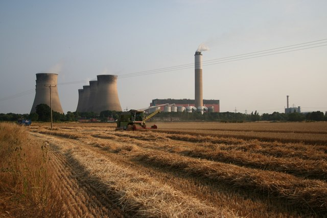 Harvesting in the shadow of the power station